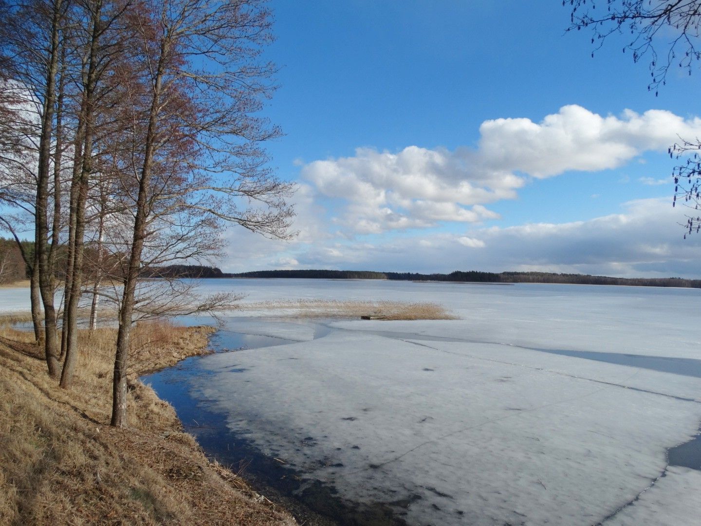 Luodis lake by Dumblynė, Zarasai District, Lithuania